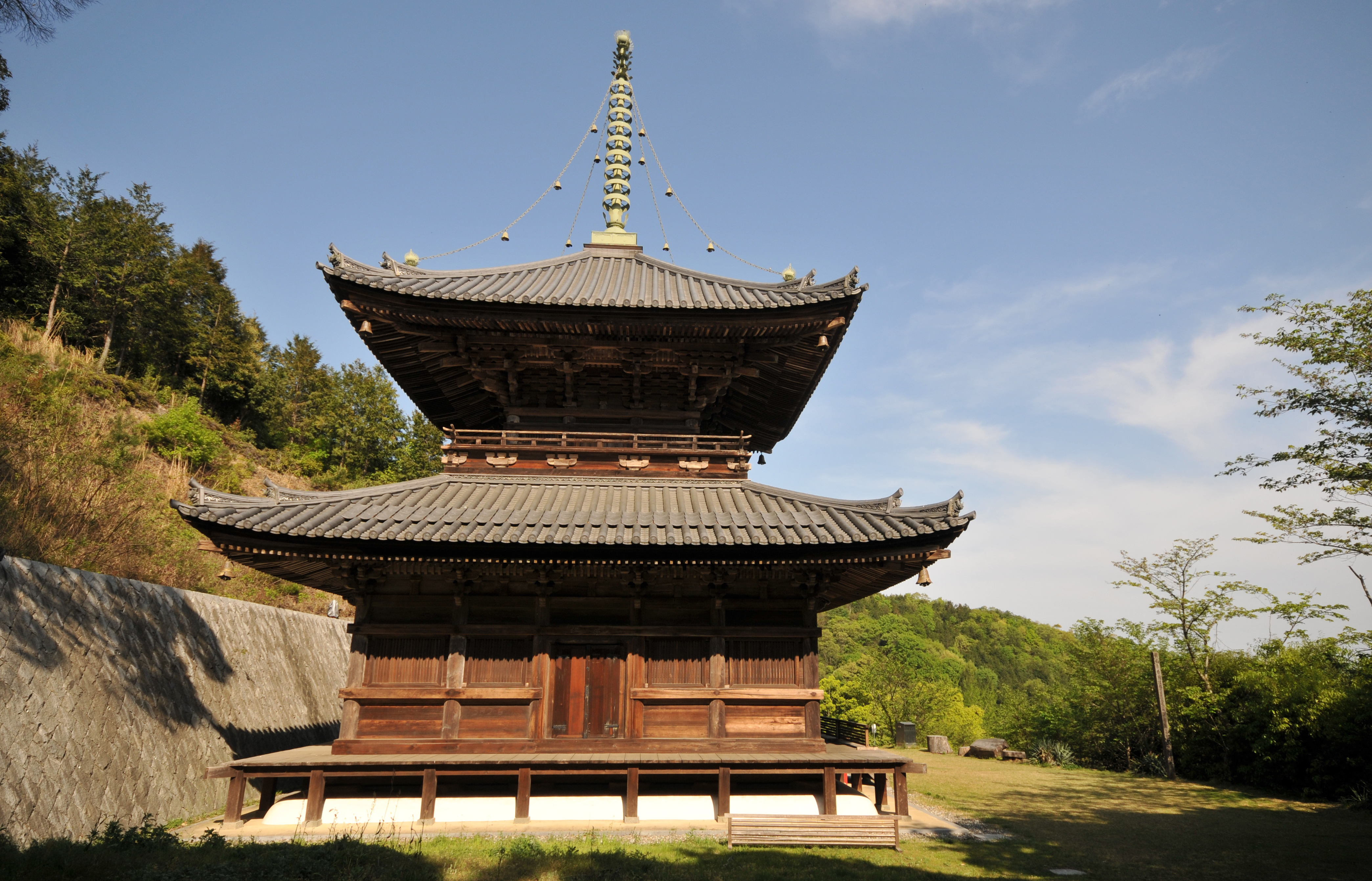 Daitō pagoda(Japan's national important cultural property), Kirihata-ji, Tokushima pref., Japan